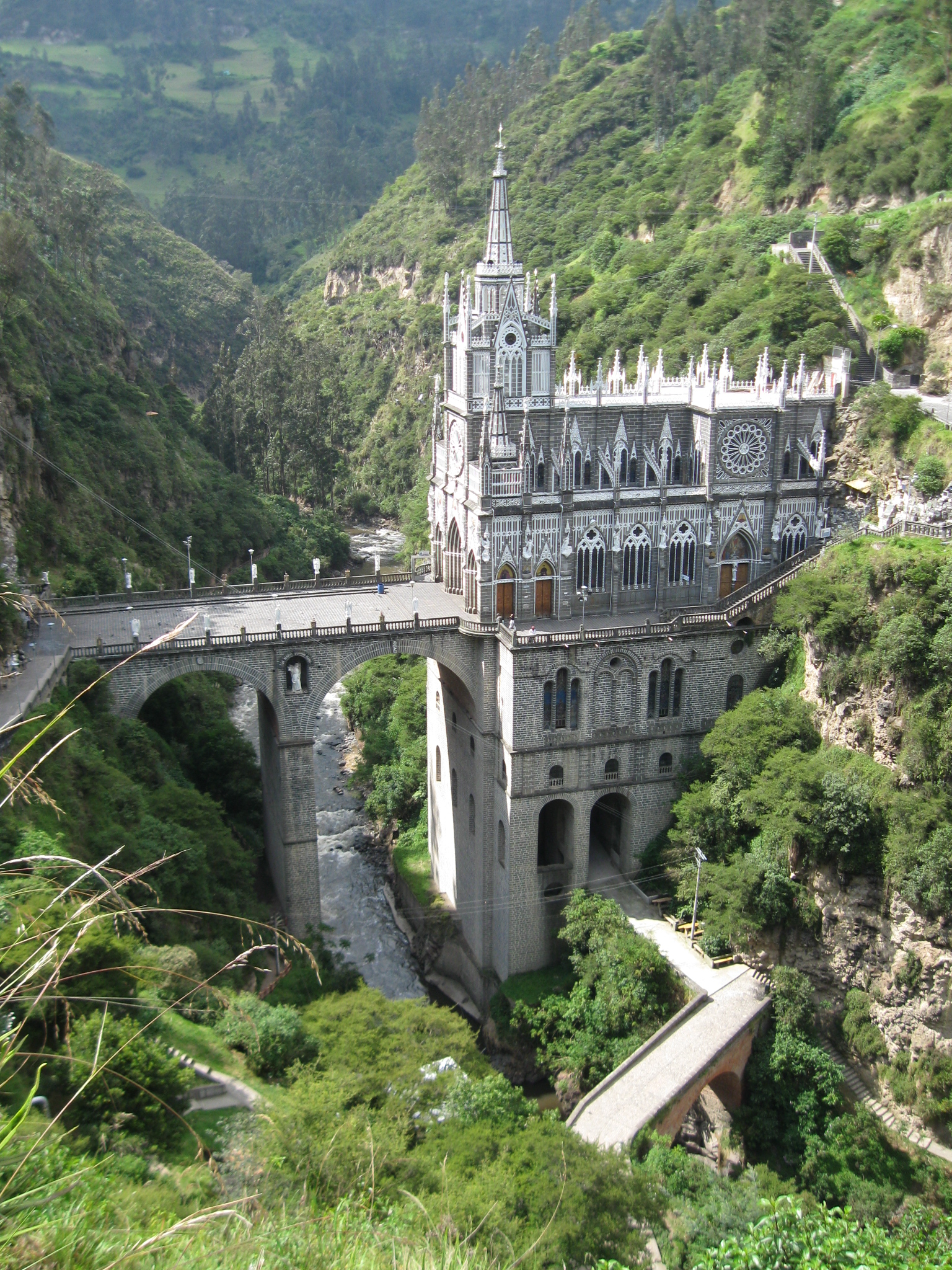 Santuario de las Lajas, Ipiales, Colombia